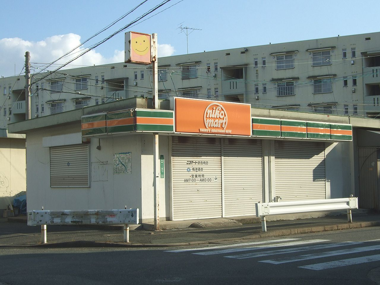 Convenience Store Nikomart Mishimazaki, Higashi Ward, Fukuoka City, Fukuoka, Japan.